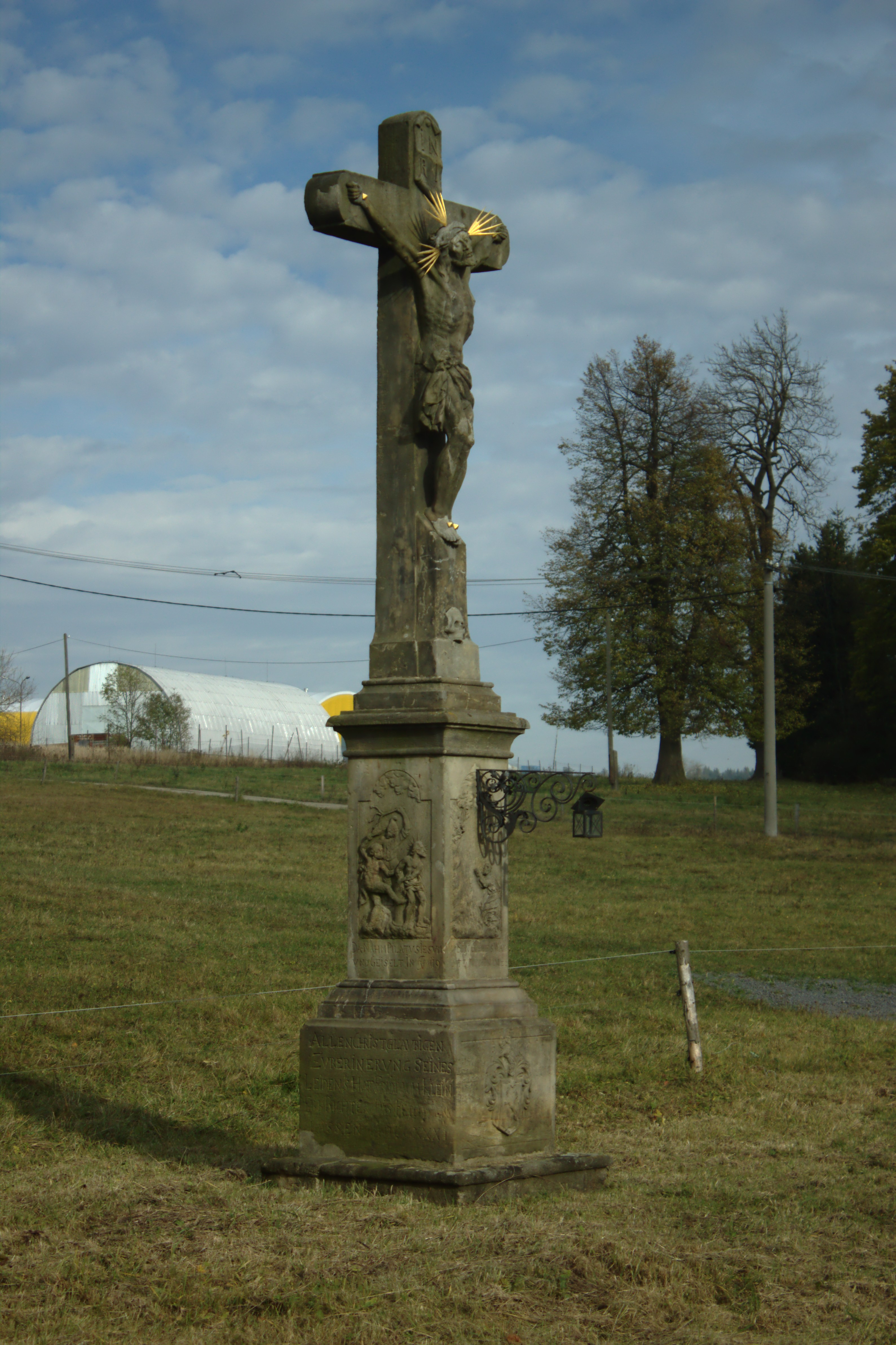 A wayside cross in the village of Čabová, CZ